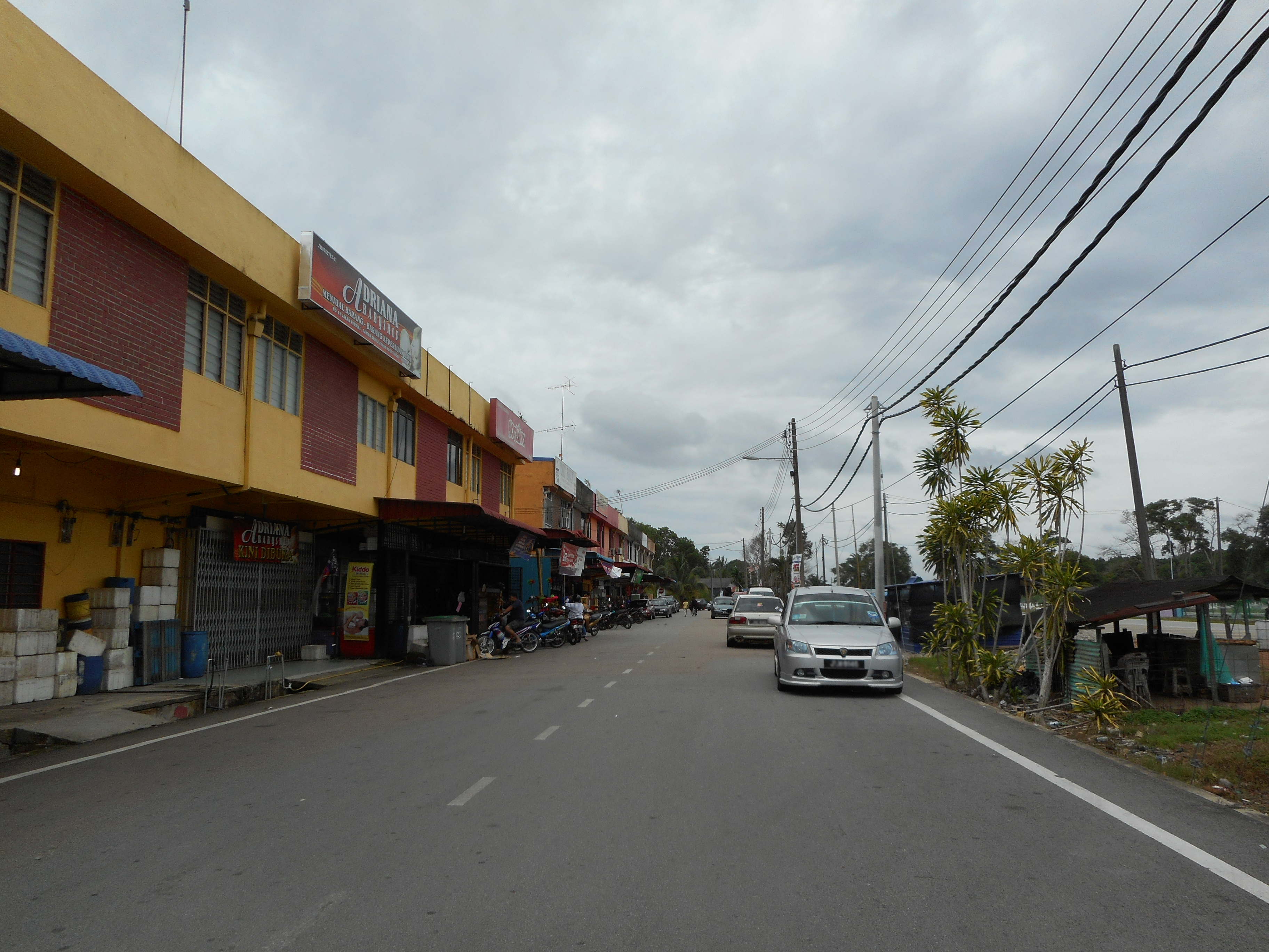 Pekan Tanjung Sedili, Tanjung Sedili, Kota Tinggi, Johor, Malaysia